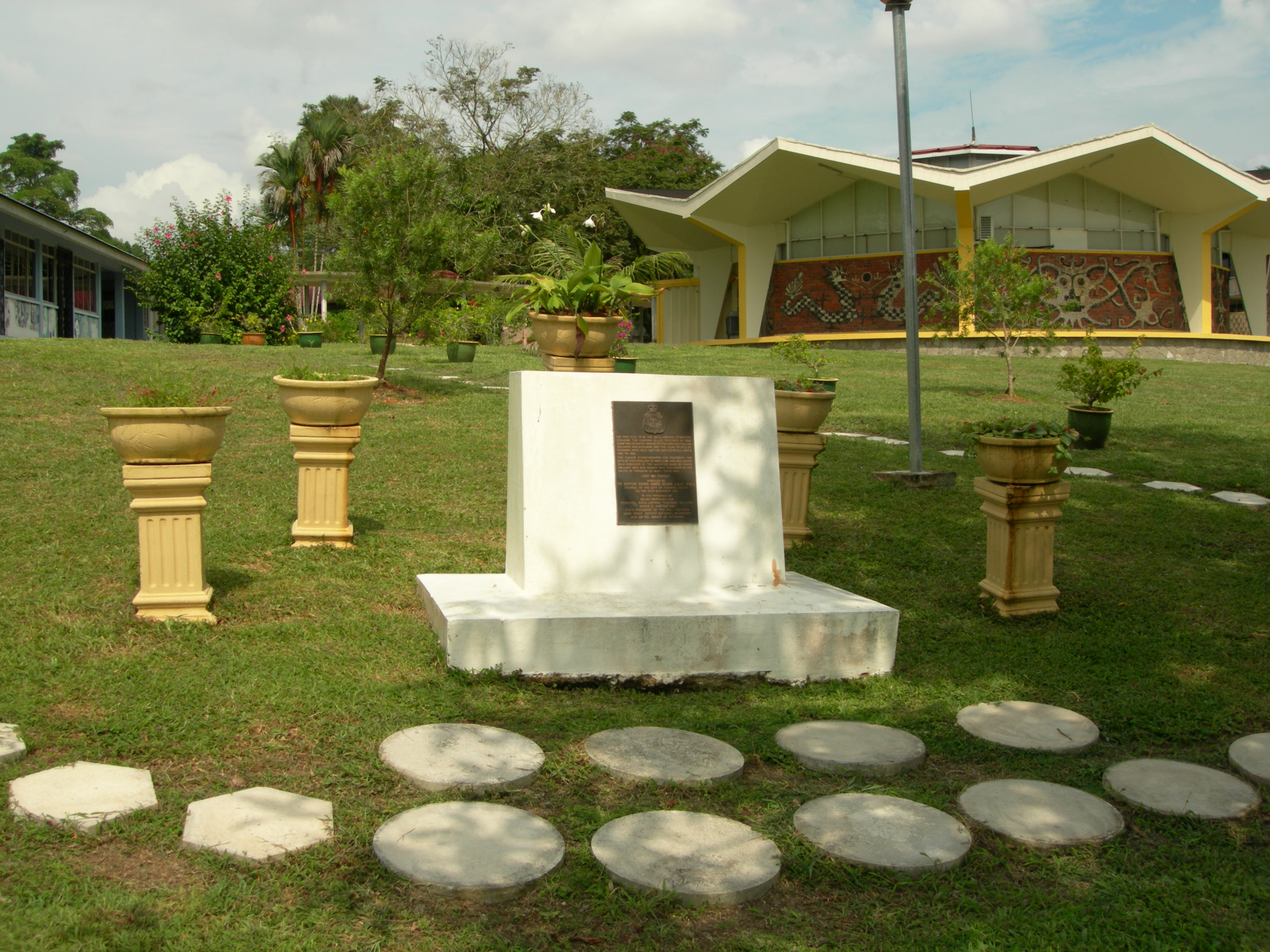 Batu Lintang Prisoner of War camp memorial at Batu Lintang Teacher's College, Kuching, Sarawak. (Malaysia) By Matthew A. Lockhart. Taken 24 March 2007.